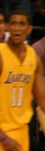 Los Angeles Lakers vs. Charlotte Bobcats preseason game, October 21, 2005. L-R: Kevin Burleson, Devin Green